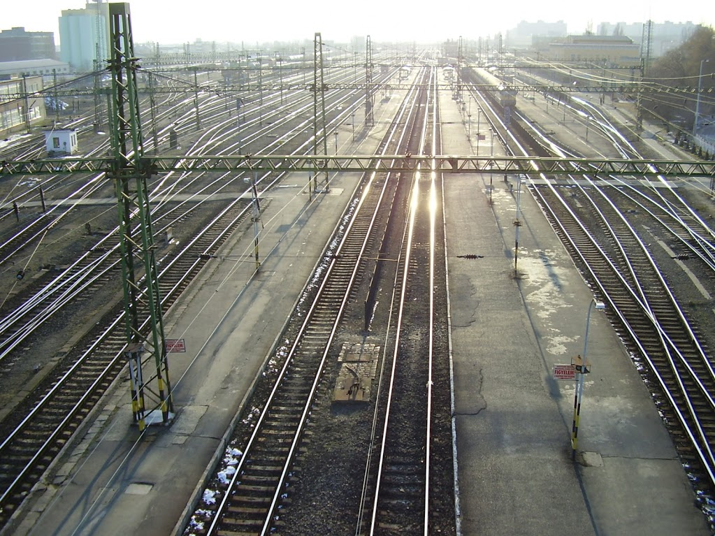 Panorama of Control Tower of Székesfehérvár Railway Station, Hungary